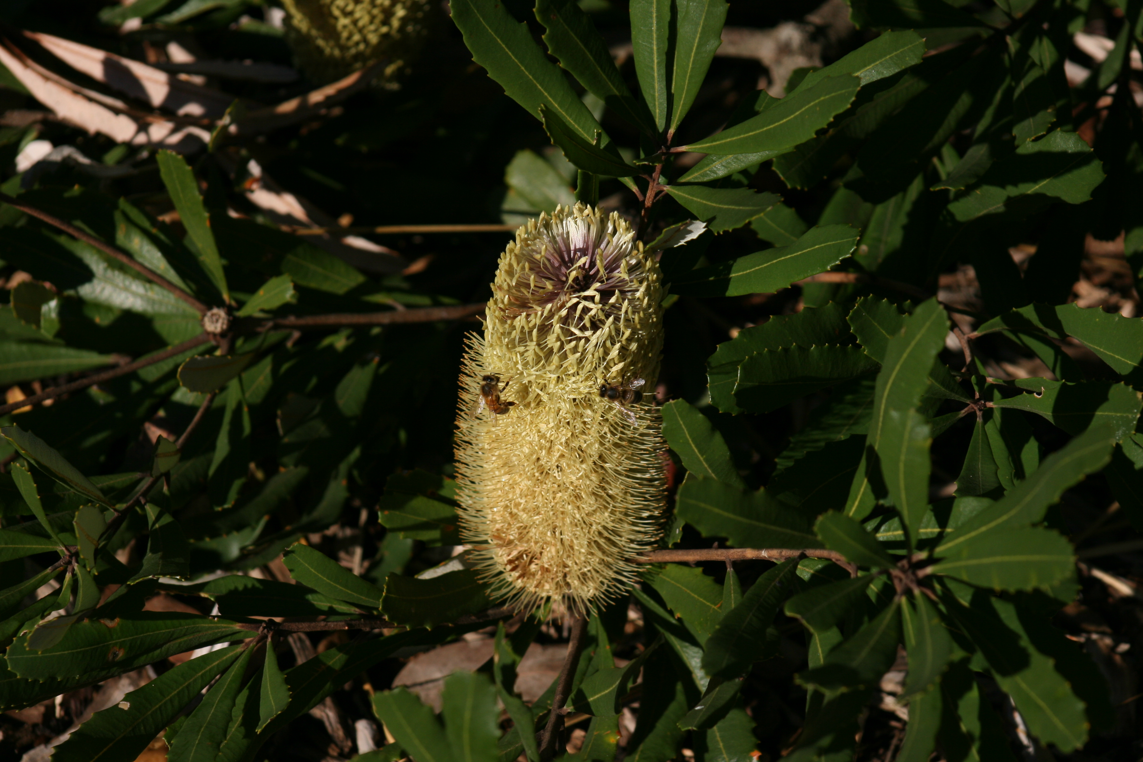 Banksia_oblongifolia, Stanwell Tops, a flower spike partly through anthesis with some honeybees.